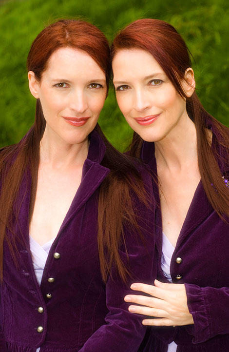 [1] A Photo of Linda and Terry Jamison, who are identical twins, photo for their info box on en.wikipedia.